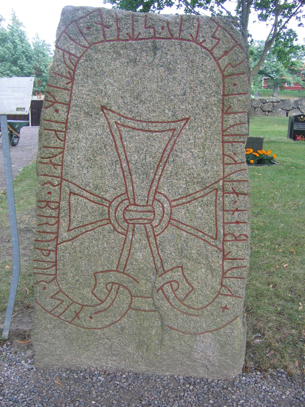 Runestone Sö 362 by Tumbo church.